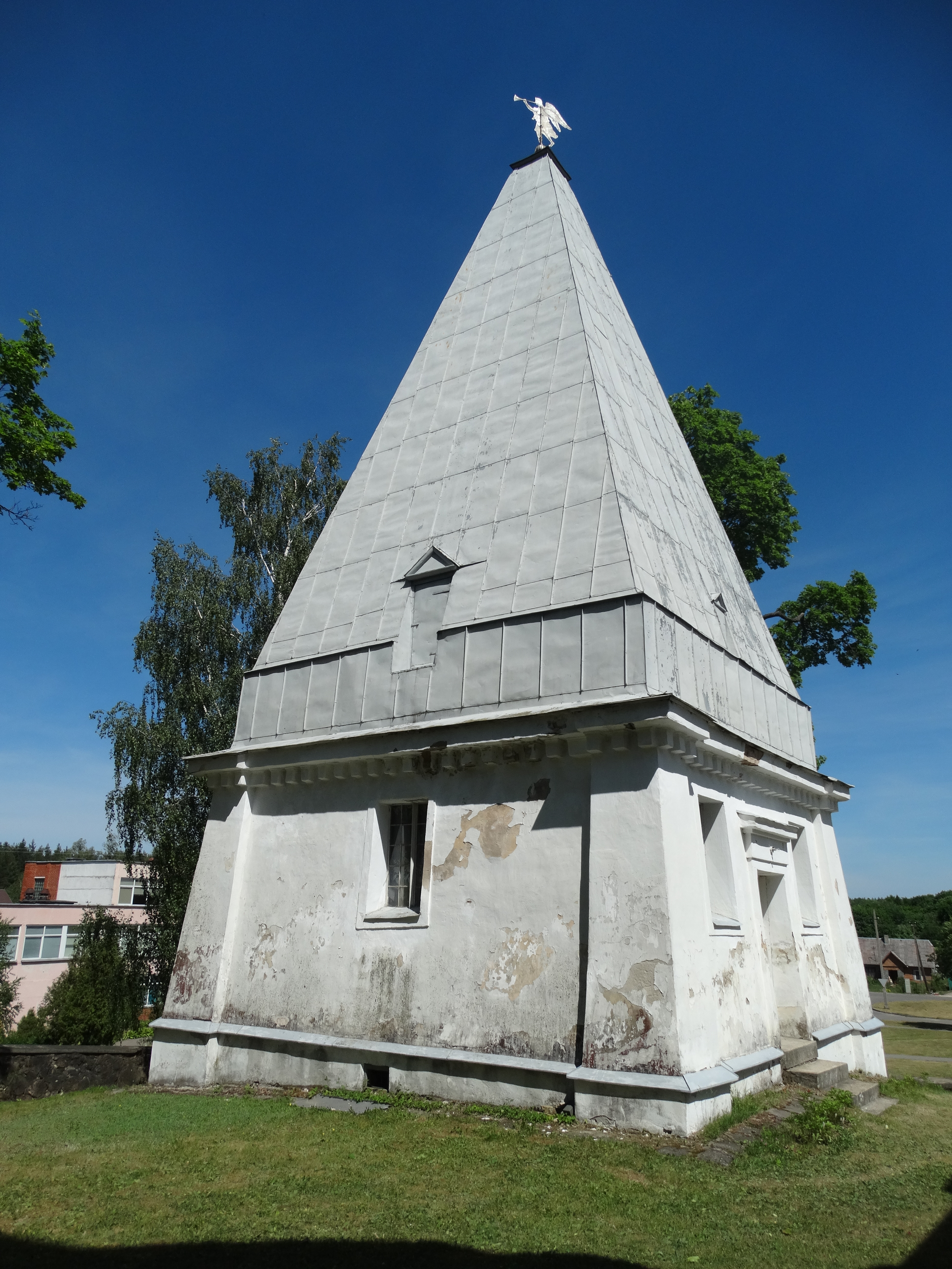 Radziszewski family chapel, Buivydžiai, Vilnius District, Lithuania